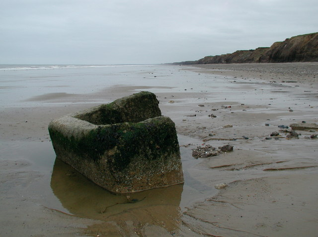 Concrete obstacles from WWII at Skirlington Sands, East Riding of Yorkshire, England.One of many concrete relics of World War 2 on the East Yorkshire coast north of Hornsea. This pillbox (or what's left of it) would originally have been on dry land but decades of coastal erosion have left it stranded on the beach.